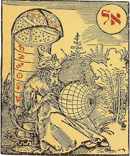 God the Creator: In this Christian interpretation of the Kabbalah, God is shown setting out the laws that govern the universe. The shape of the Creator's throne mirrors that of the macrocosm: the throne cover is a model of the heavens, the back a representation of the planetary spheres.